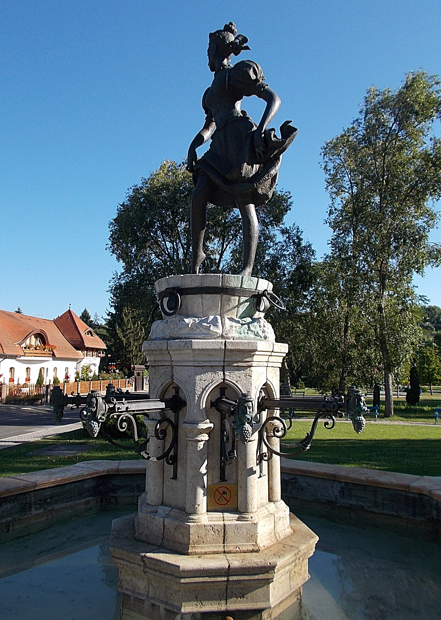 Grapes crusher girl by Mihály Kolodko in 2013. This is a fountain with a statue. A gift from Vynohradiv, Ukraine. A replica, the original located there. The statue shows a girl who crushing grapes by feet standing in a wooden half barrel like object called 'dézsa' in hungarian. The spouts of the fountain part decorated with men head and theirs beard is shaped as bunch of grape. - Szépasszonyvölgy, Eger, Heves County, Hungary.